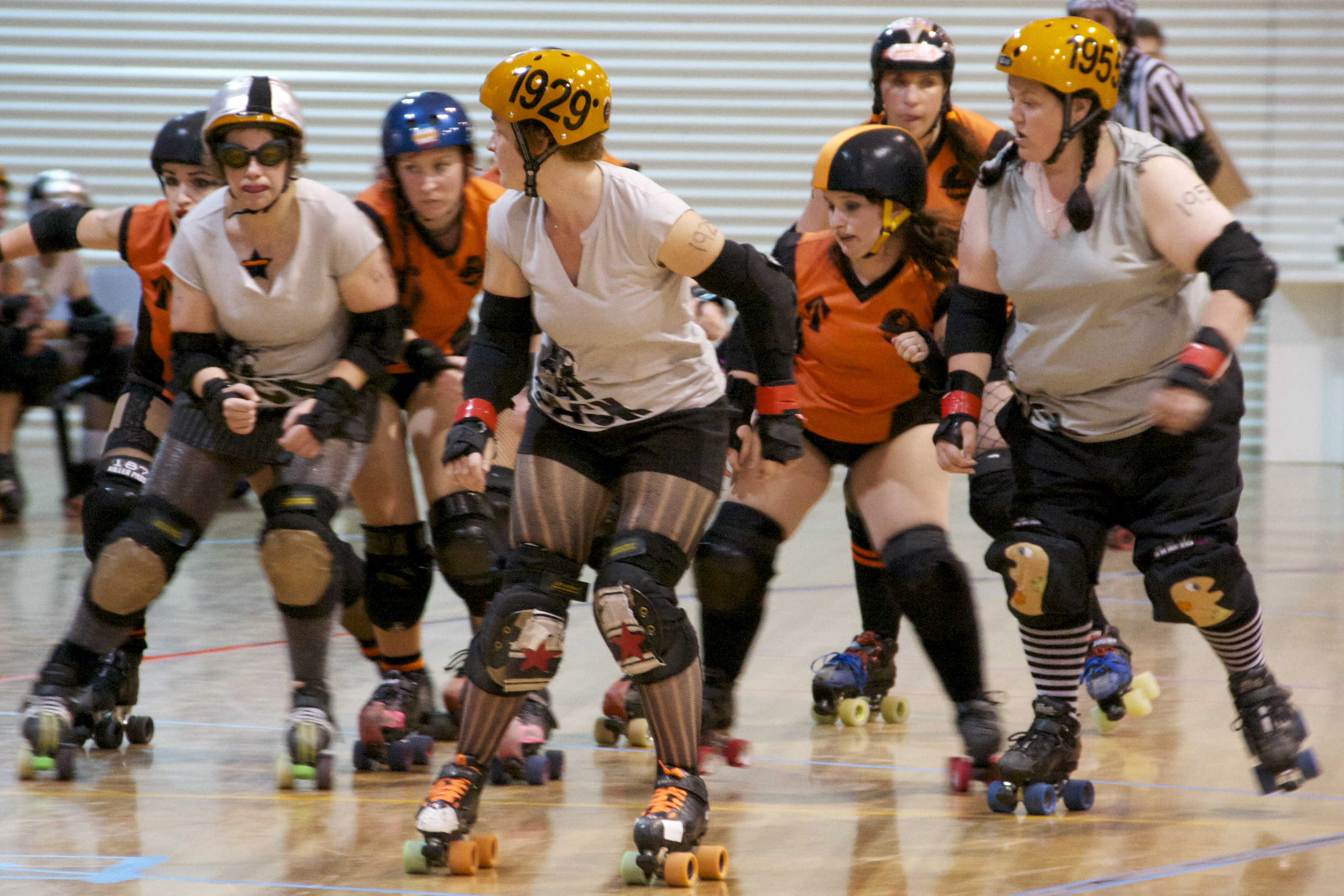 Roller derby in Hobart, Australia, November 27, 2010. Hobart's Convict City Rollers vs. Ballarat's 'Rat Pack.